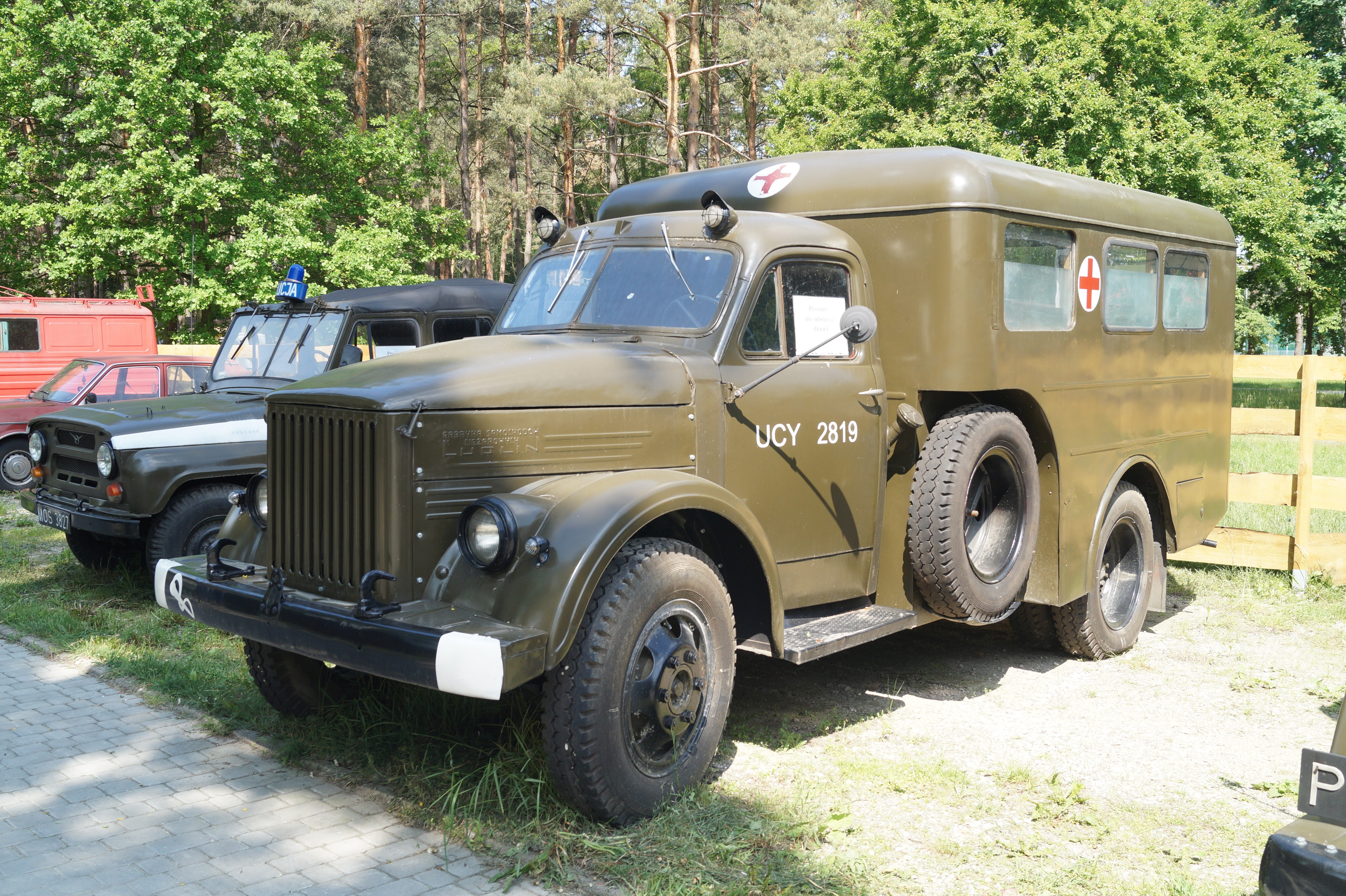 The making of this document was supported by Wikimedia Polska Association, within Wikigrant no. WG 2016-18. Sanitarka na bazie FSC Lublin-51 w Muzeum w Nieborowie